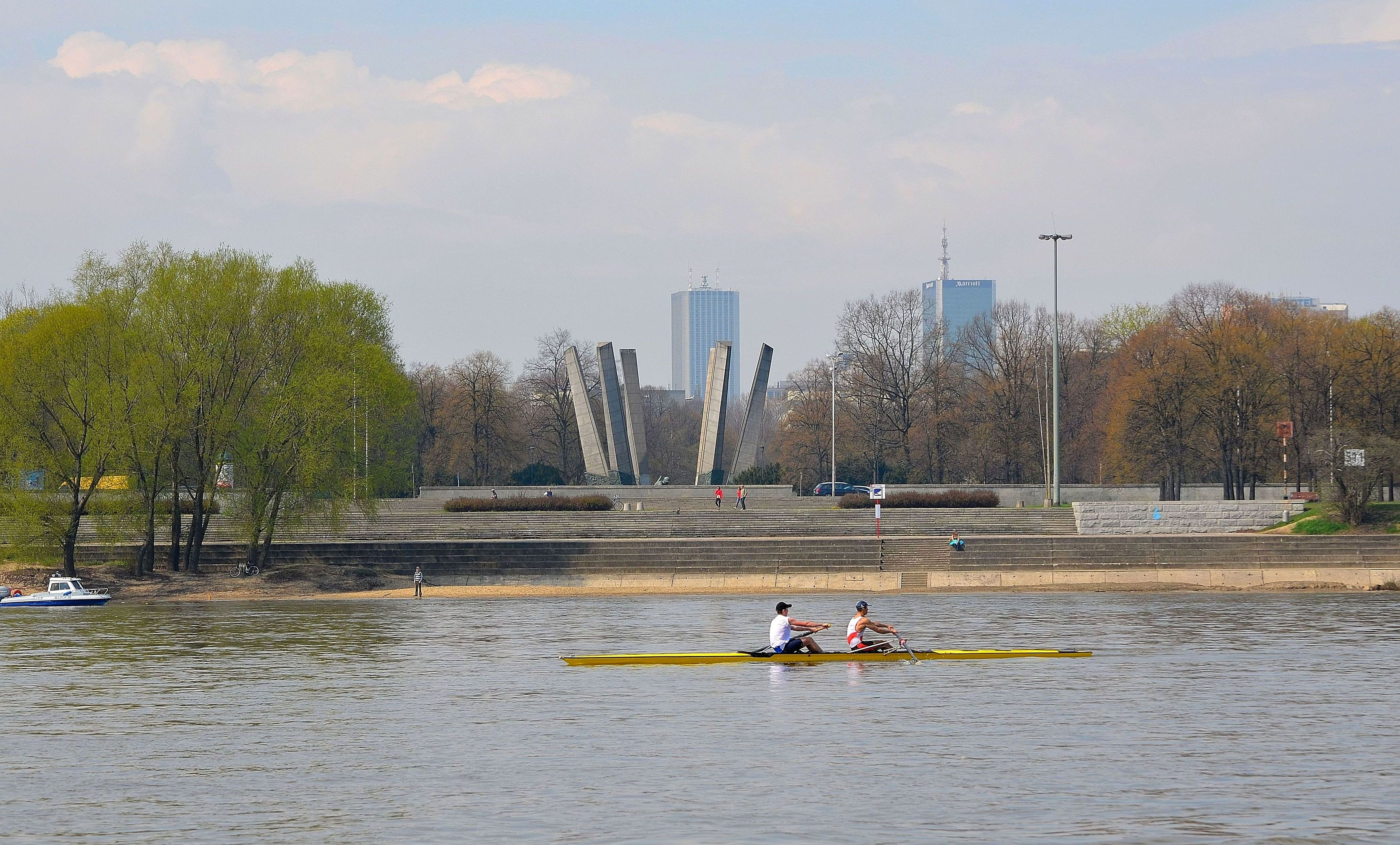 Chwała Saperom Monument viewed from right bank of the Vistula River